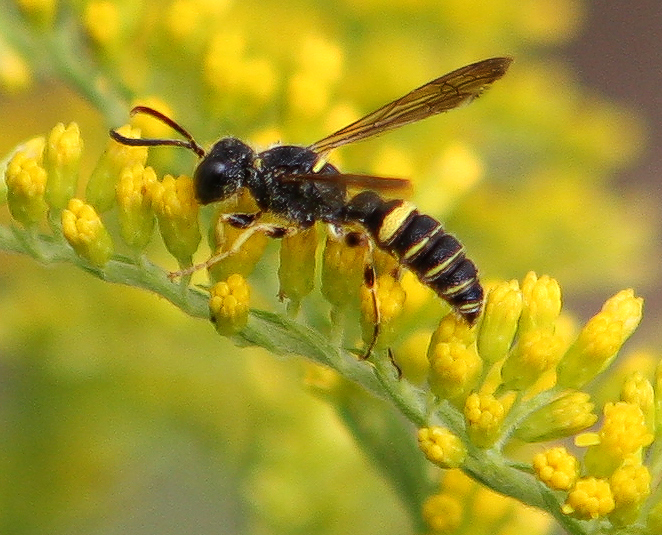 Self made image of common goldenrod and a pollinating Cerceris wasp.